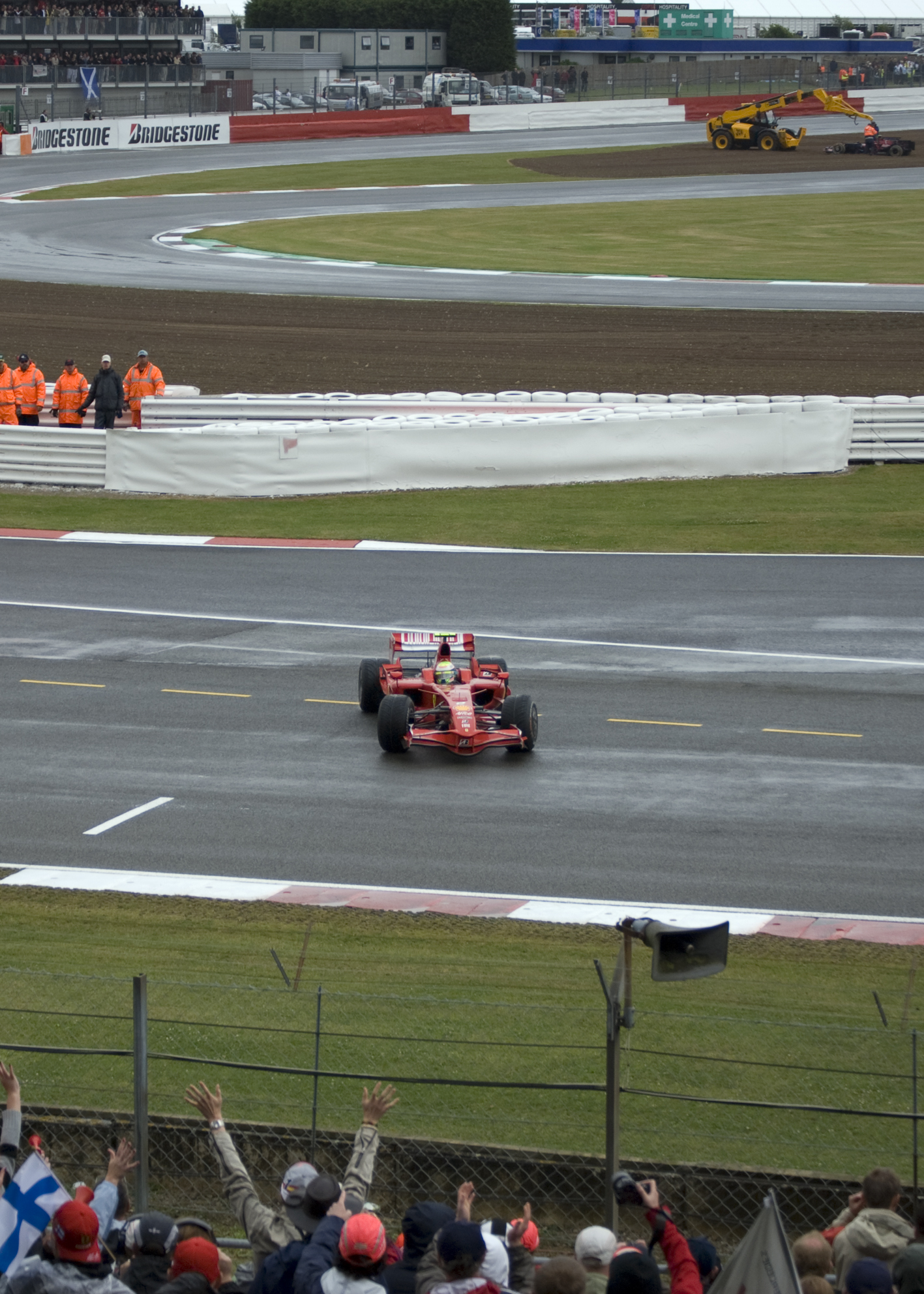 Felipe Massa spinning out at the 2008 British GP